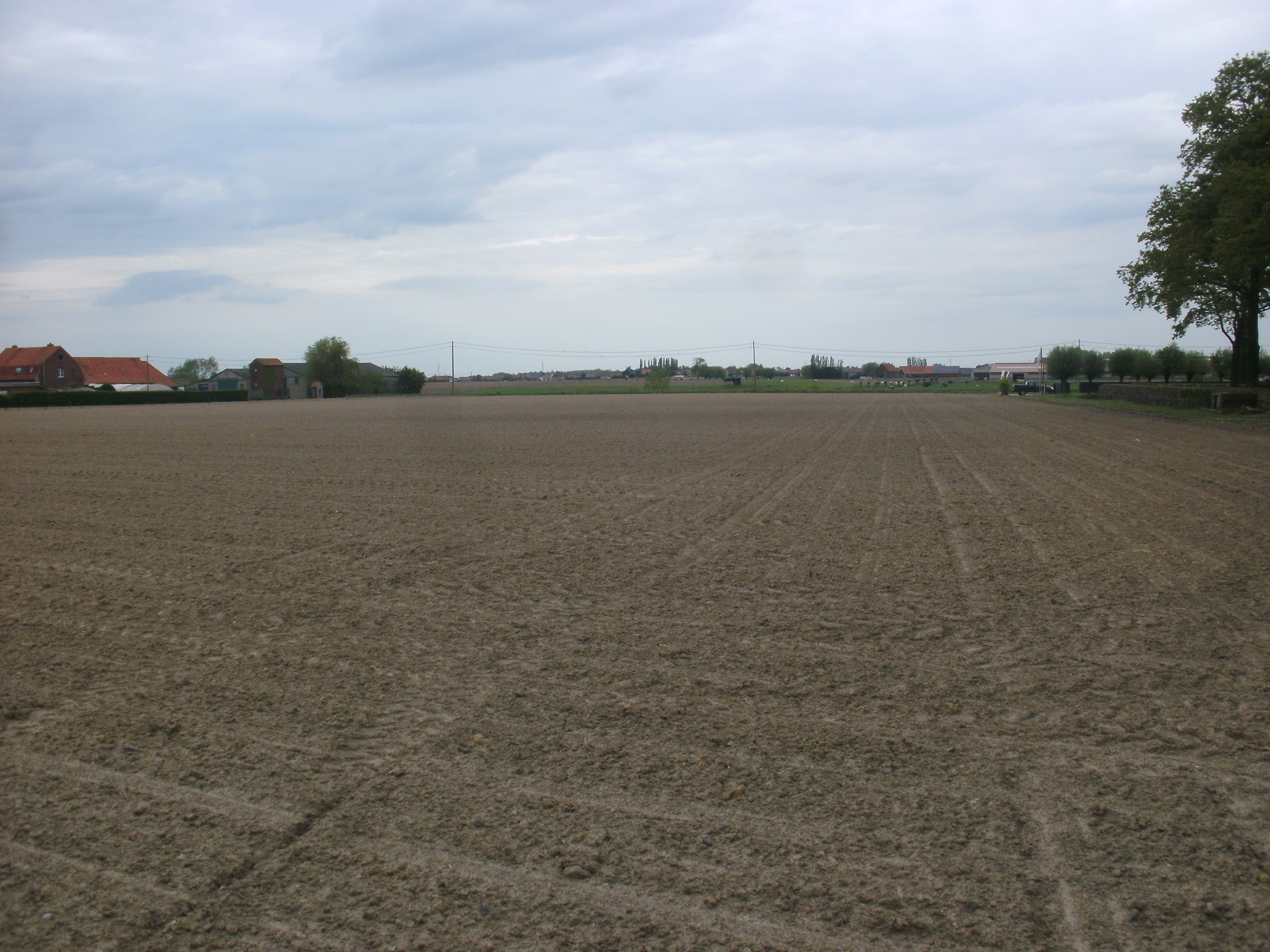 Fields at Langemark-Poelkapelle, Belgium: Photo taken from a position approx 50°55'13.4"N 2°54'54.6"E just west of Langemark German War Cemetery, facing approx north, towards the former location of the German trench from which the first gas attack was launched on 22 April 1915. In this area, the German trench system ran approximately from the farmhouse on the left to the group of willow trees visible on the right.